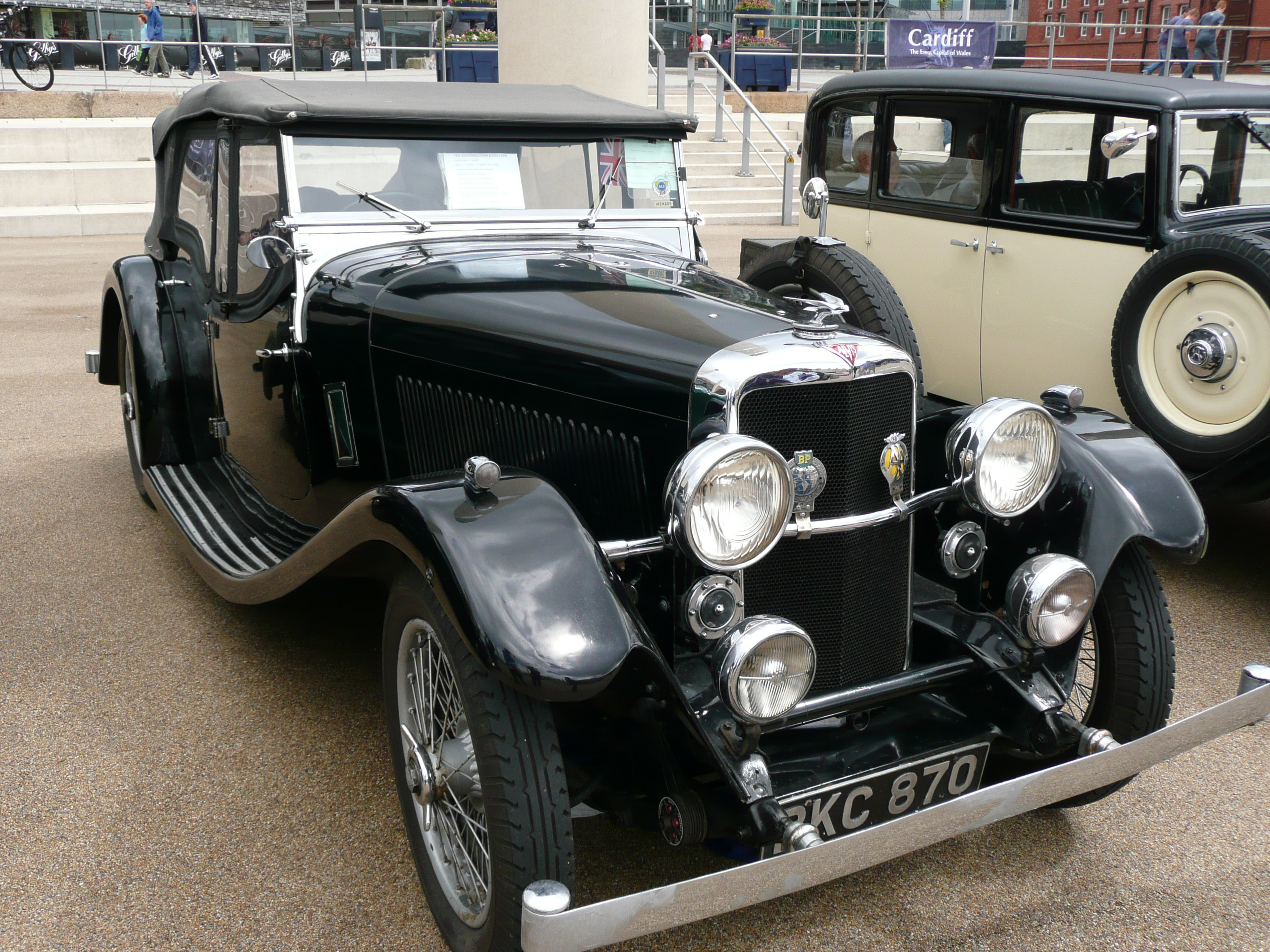 1936 Alvis Firebird Tourer by Cross & Ellis